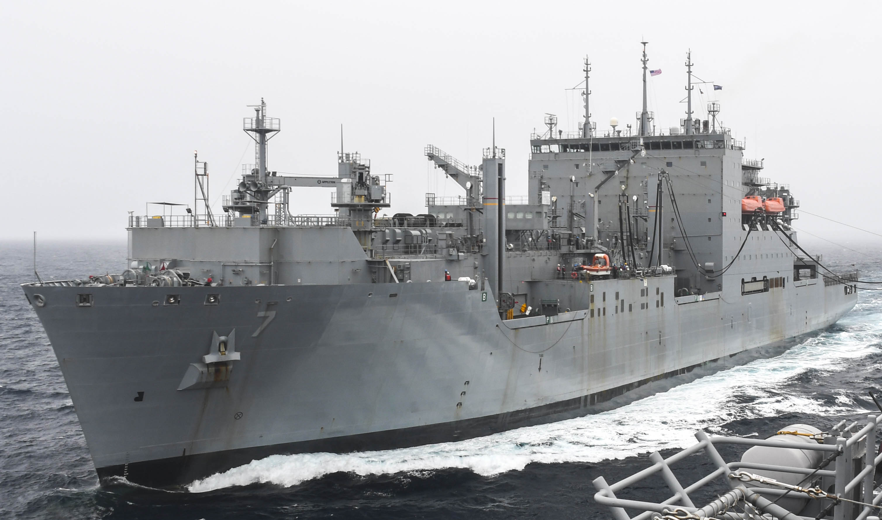 190117-N-PX867-1071 PACIFIC OCEAN (Jan. 17, 2019) Dry cargo and ammunition ship USNS Carl Brashear (T-AKE 7) and amphibious assault ship USS Boxer (LHD 4) conduct a replenishment-at-sea. Boxer is underway conducting routine operations as a part of USS Boxer Amphibious Ready Group (ARG) in the eastern Pacific Ocean. (U.S. Navy photo by Mass Communication Specialist 3rd Class Justin Whitley)